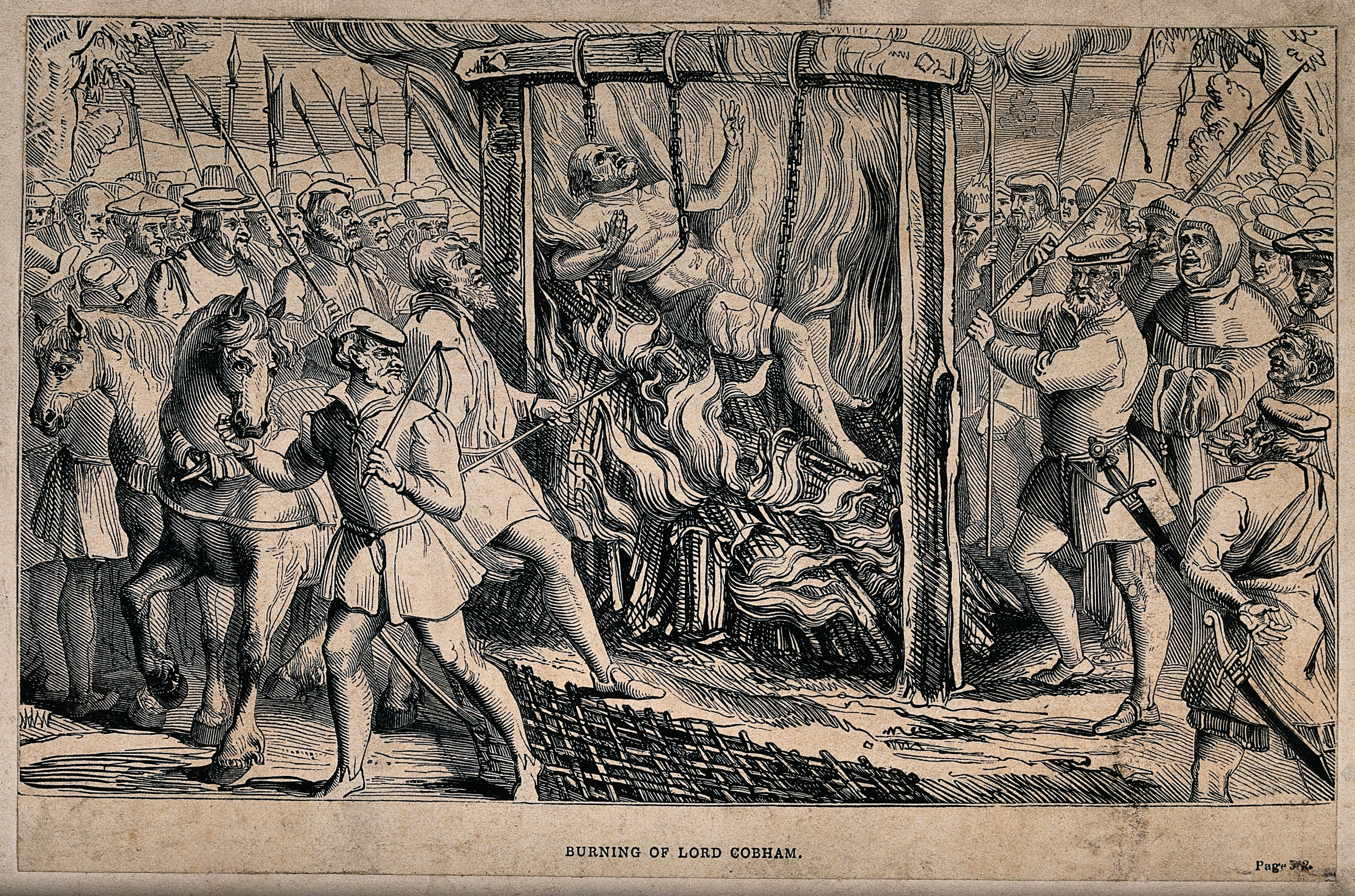 The burning of Sir John Cobham, Lord Oldcastle, a Lollard and follower of John Wycliffe, in London in 1418. Wood engraving. Iconographic Collections